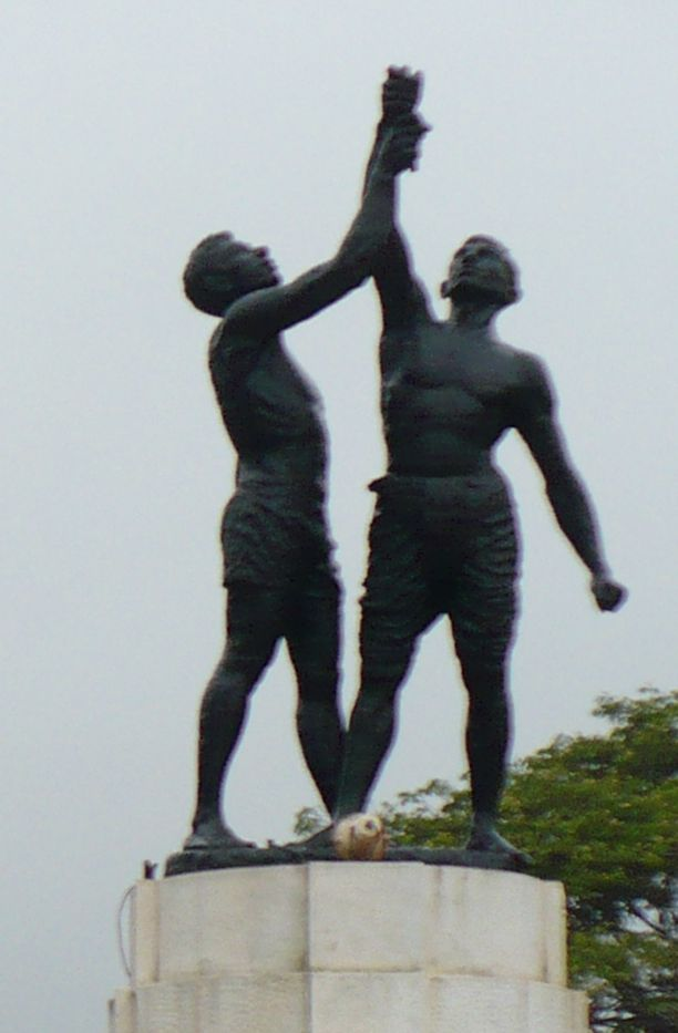 Detail from Goa memoerial statue (Hindu-Christianity Unity Memorial at Miramar Beach)